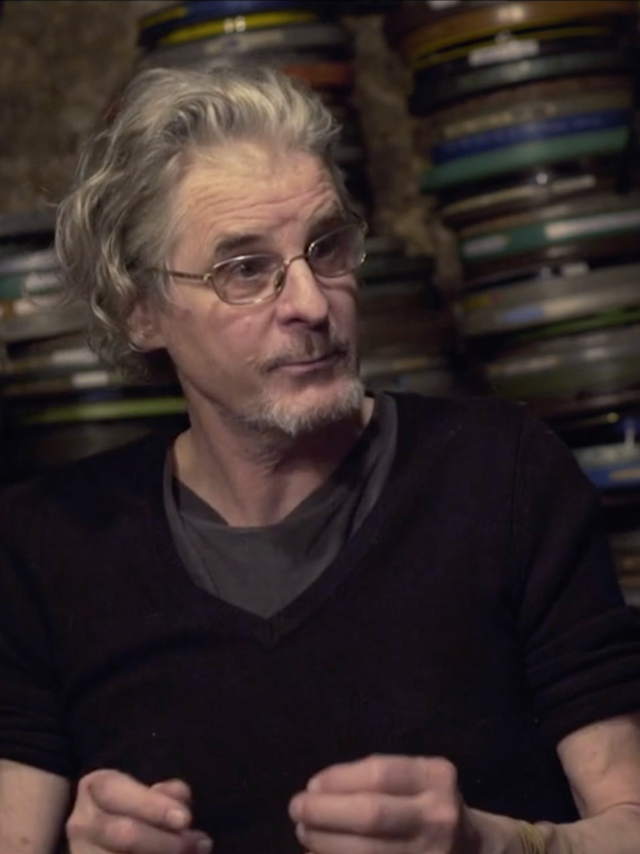 Craig Baldwin at Artists' Television Access in San Francisco, California, United States